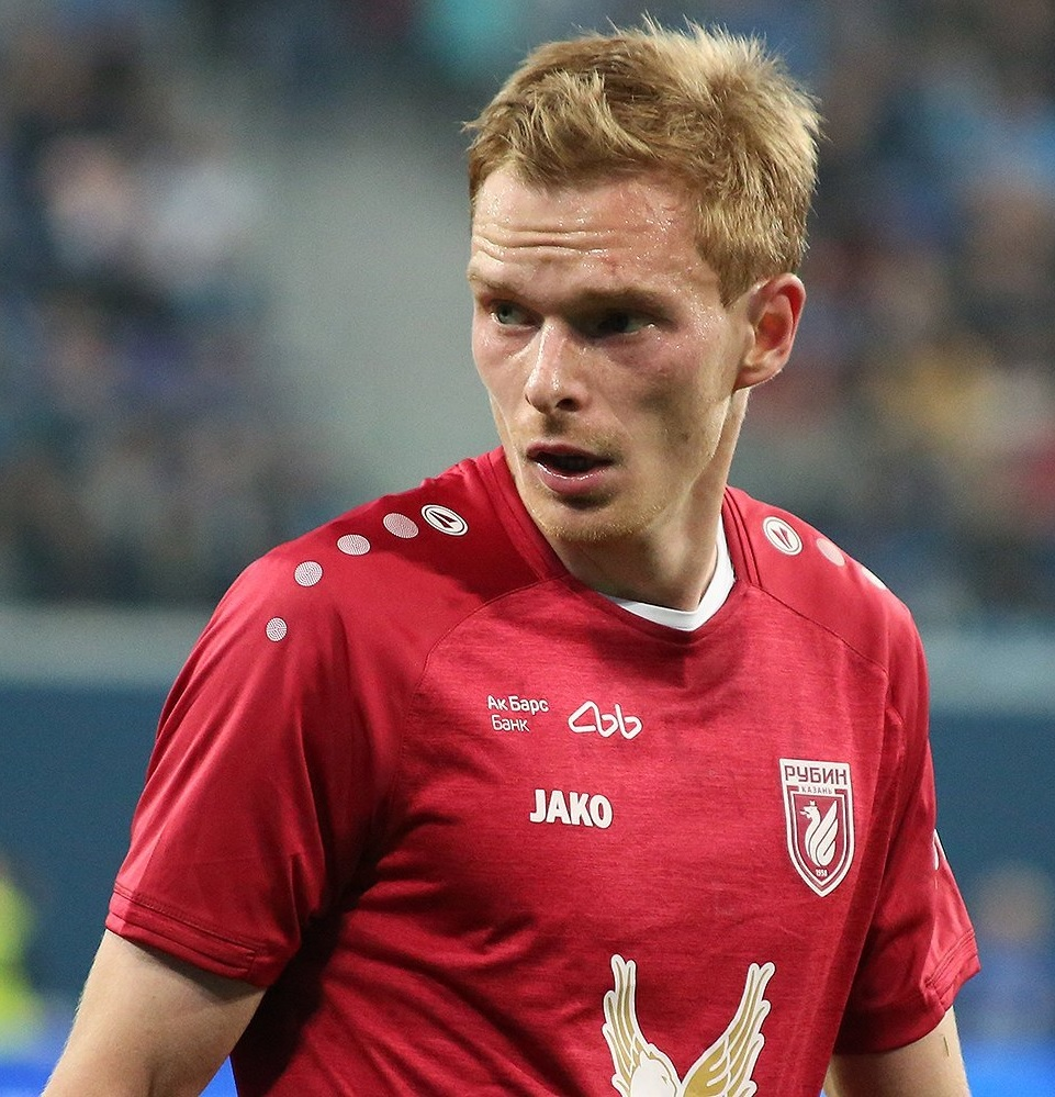 Pavel Mogilevets with FC Rubin Kazan in a game against FC Zenit Saint Petersburg.